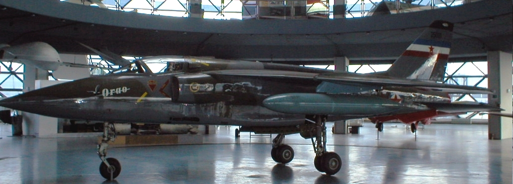 Ј-22 Orao in the Aviation Museum in Belgrade (Interesting fact: It is featured in the Deathstar's music video for the song Blitzkrieg)